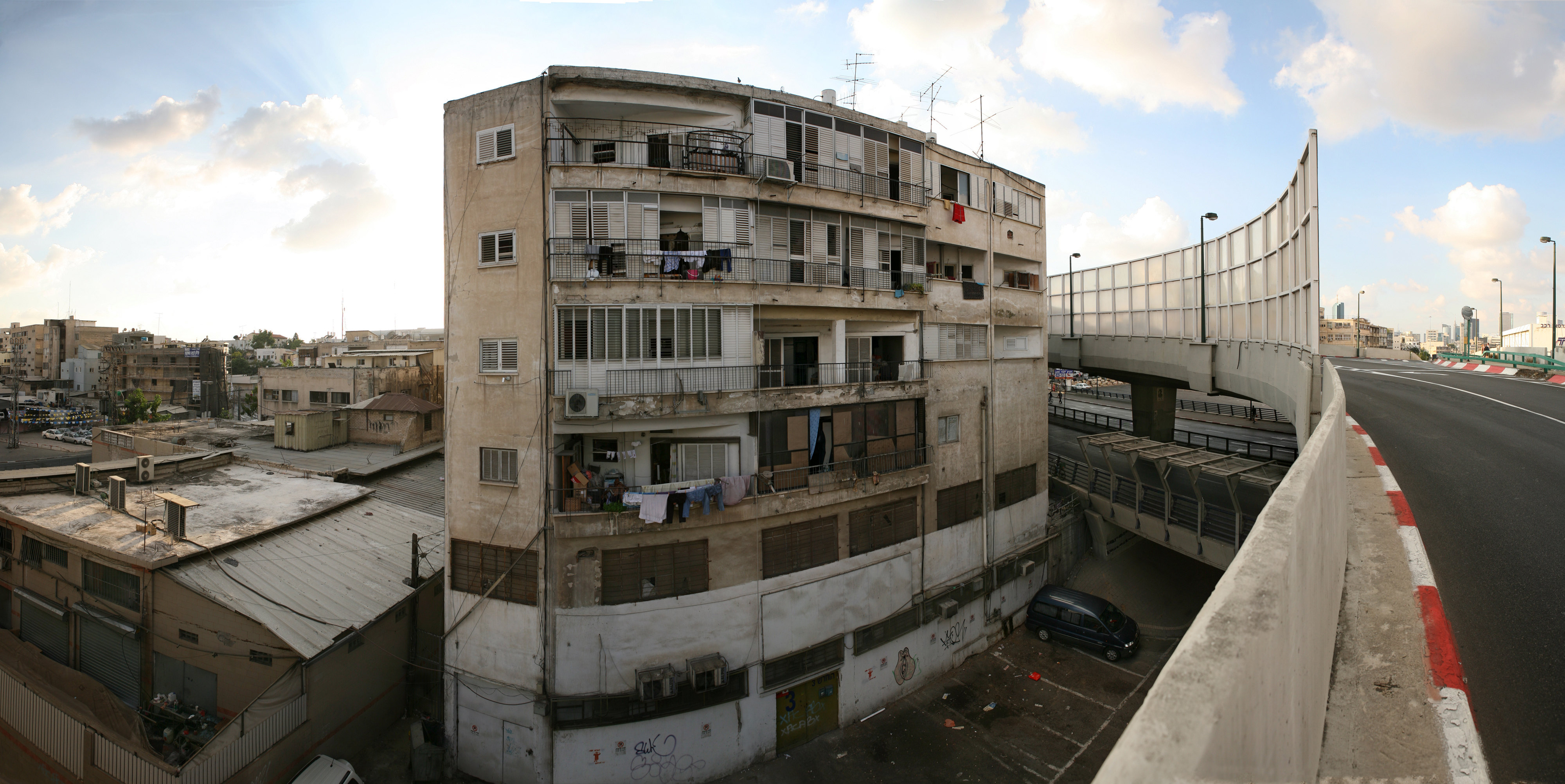 An apartment building in Neve Sha'anan neighborhood near the bus boarding platforms to the Tel Aviv Central Bus Station. Residents affected by construction of the bridges leading to the station managed a long legal battle because of the decline in value of their apartments.